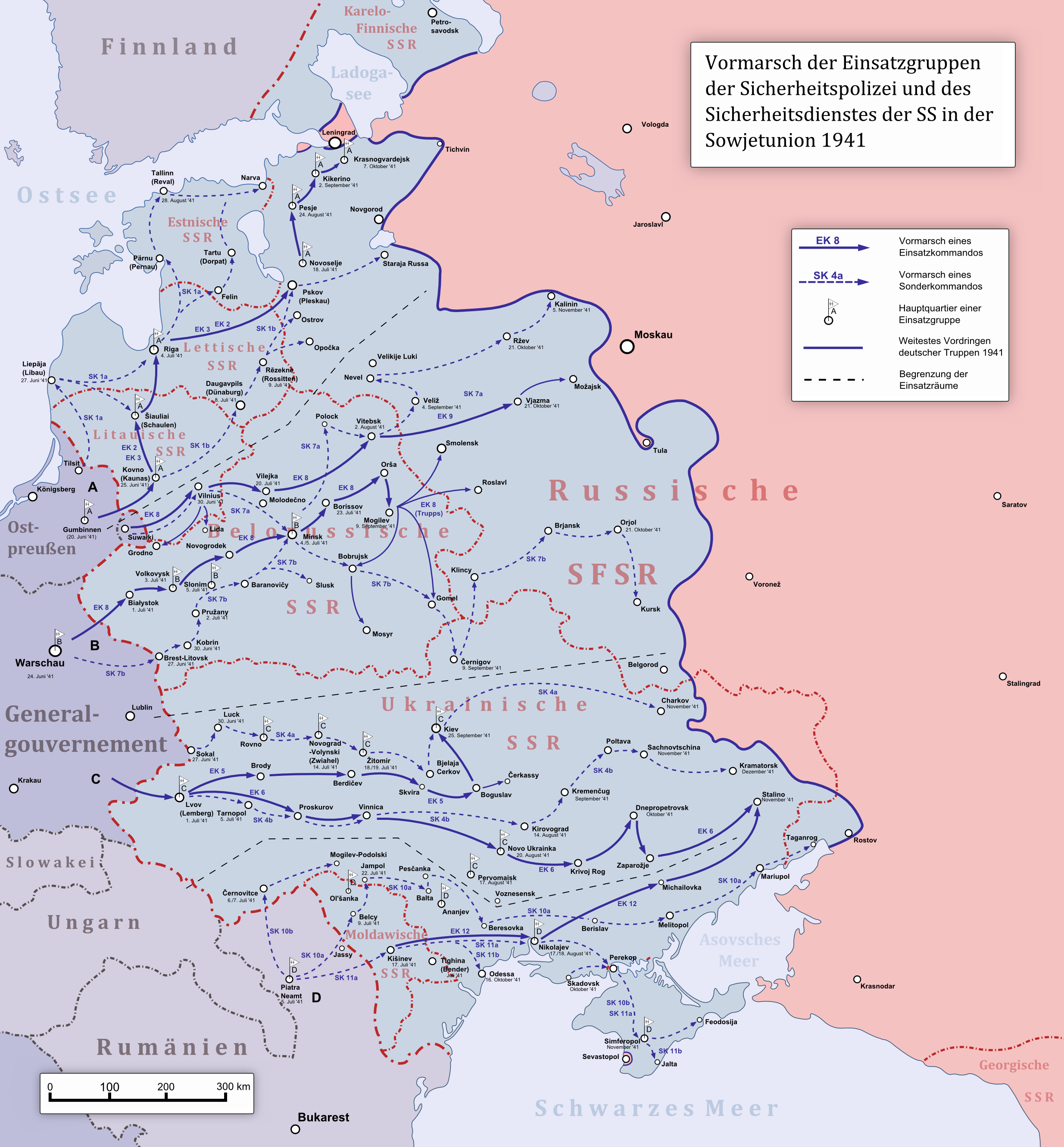 German Map, showing the conduct of operation of the German "Einsatzgruppen" of the SS in the Soviet Union in 1941.